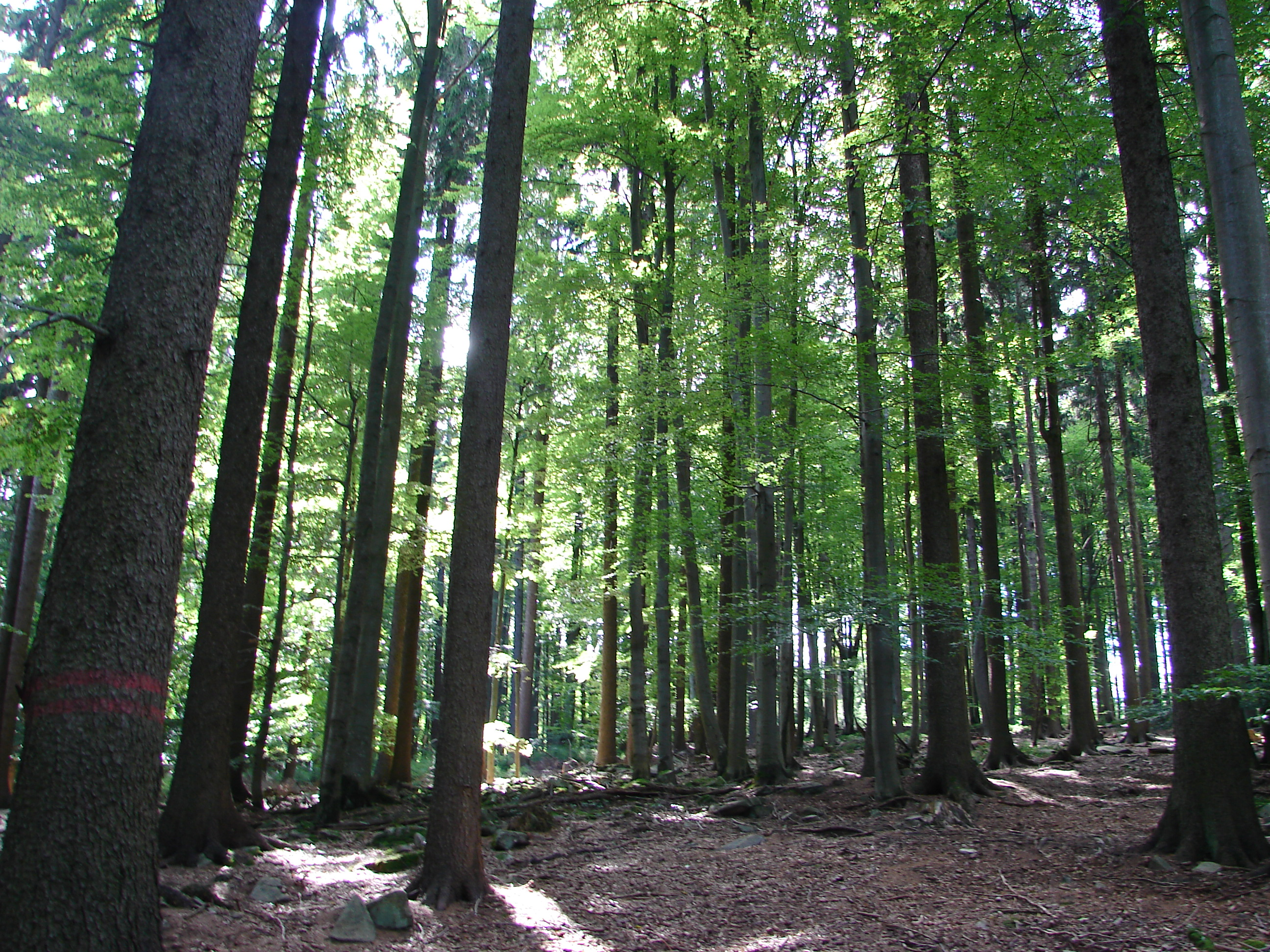 Natural monument Horní Nekolov, Jihlava District, Czech republic.